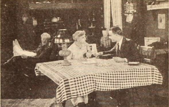 Still from the American comedy film Passing Through (1921), on page 63 of the 1921 Photoplay.